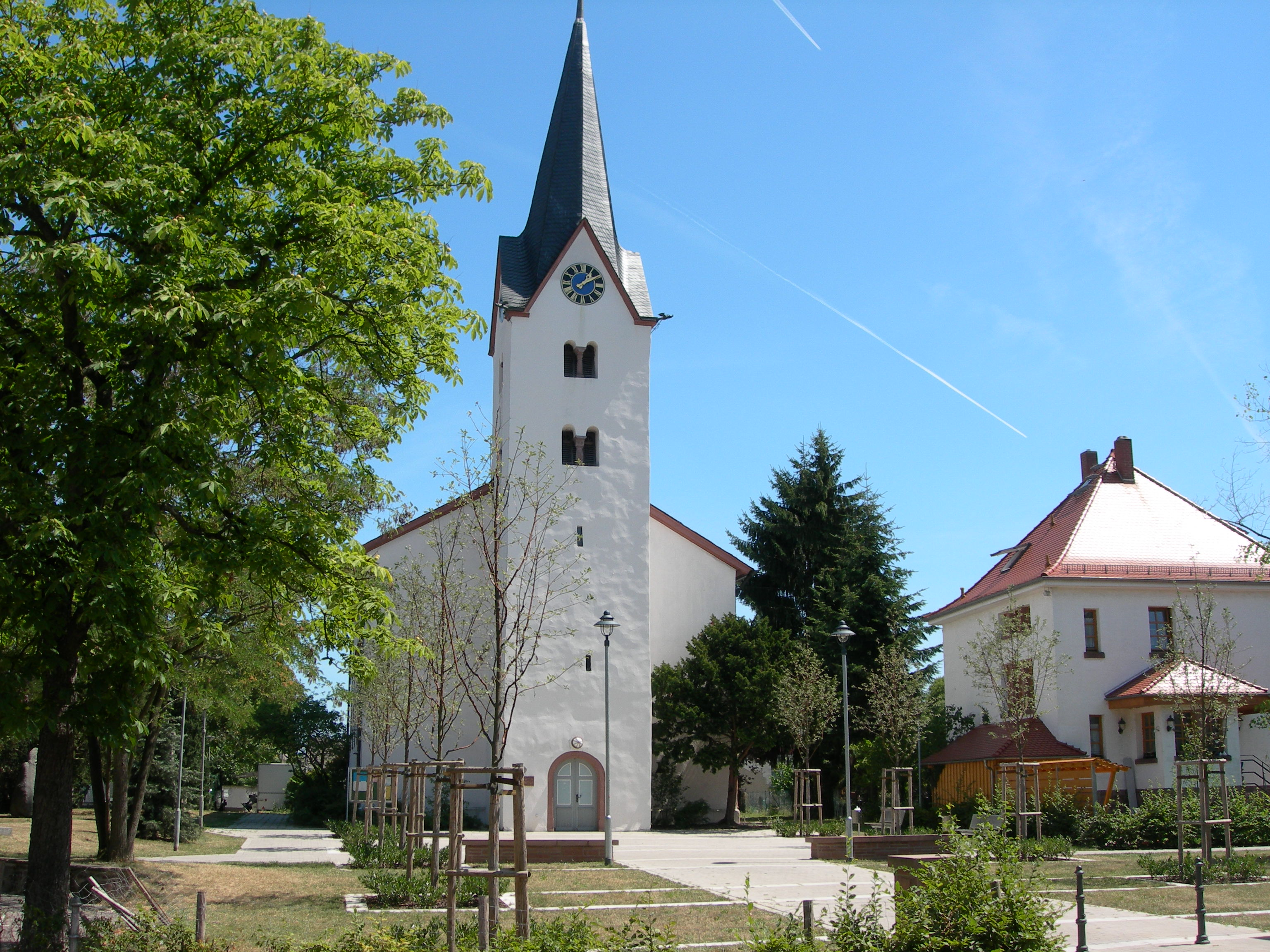 Weiterstadt-Gräfenhausen (Hesse), protestant church